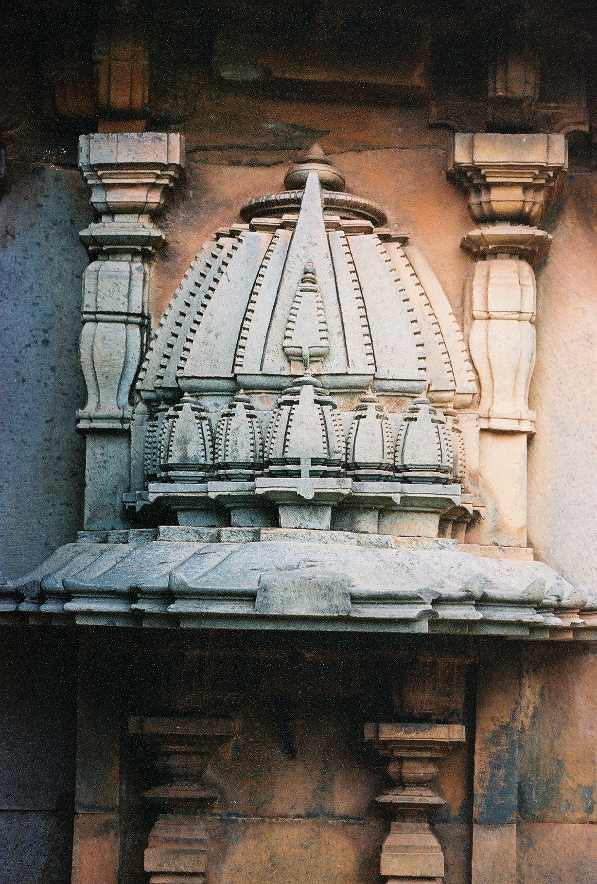 Siddhesvara Temple in Haveri town, Haveri district, Karnataka state, India